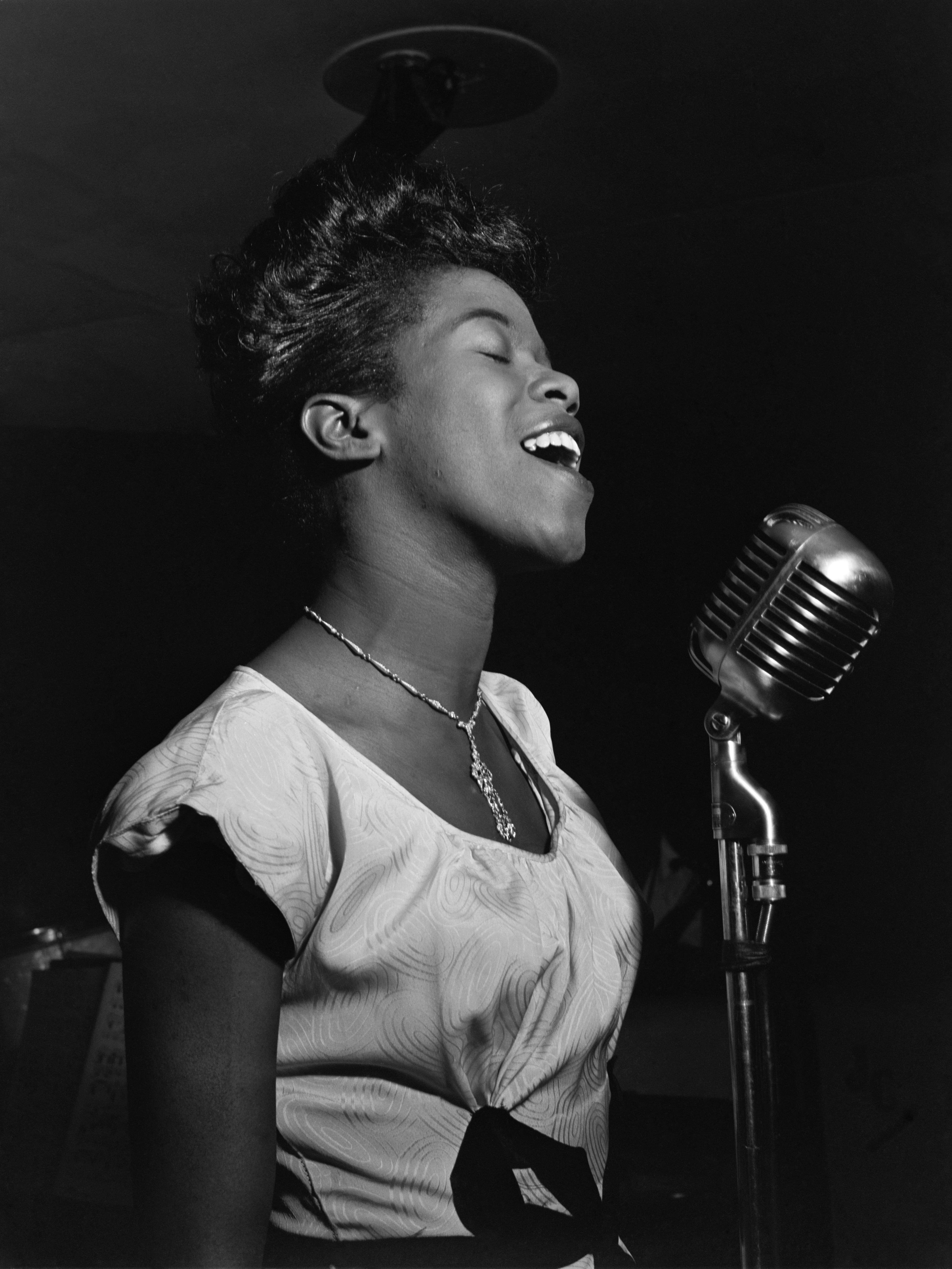 Sarah Vaughan, possibly at Cafe Society, NYC, ca. August 1946. Photography by William P. Gottlieb. Gottlieb took several photographs of Vaughan around the same time; the numbering is arbitrary.